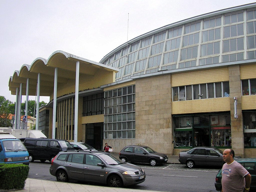 Bom Sucesso market in Porto city, Portugal.